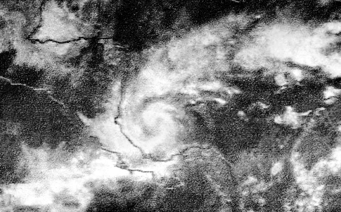 Hurricane Martha (1969) on November 21, 1969. The system was a strong tropical storm at this time. It attained hurricane intensity around 00Z on November 22.